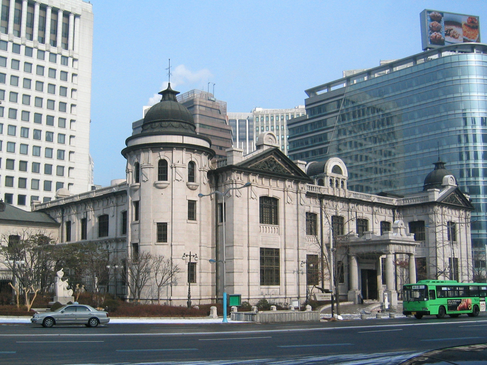 The Bank of Korea Museum. Building completed 1912, architect: Tatsuno Kingo.